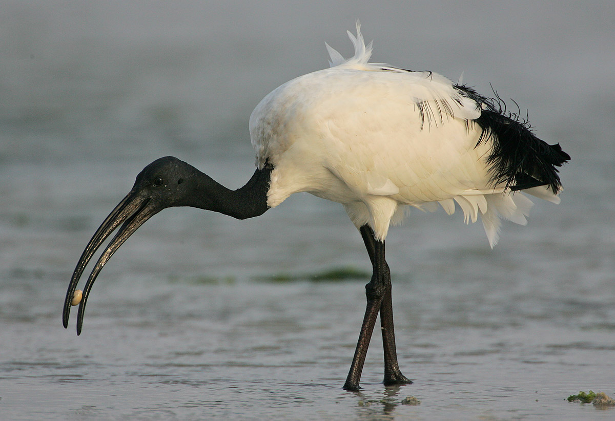 African Sacred Ibis in the Mida Creek mud flats, Kenya